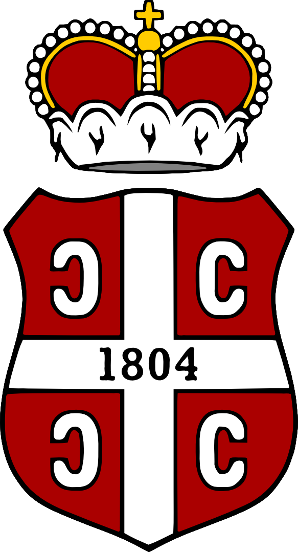 Coat of Arms of Peter I of Serbia (as a Knez). This Coat of Arms (possibly just a medium COA) was taken from his personal seal.